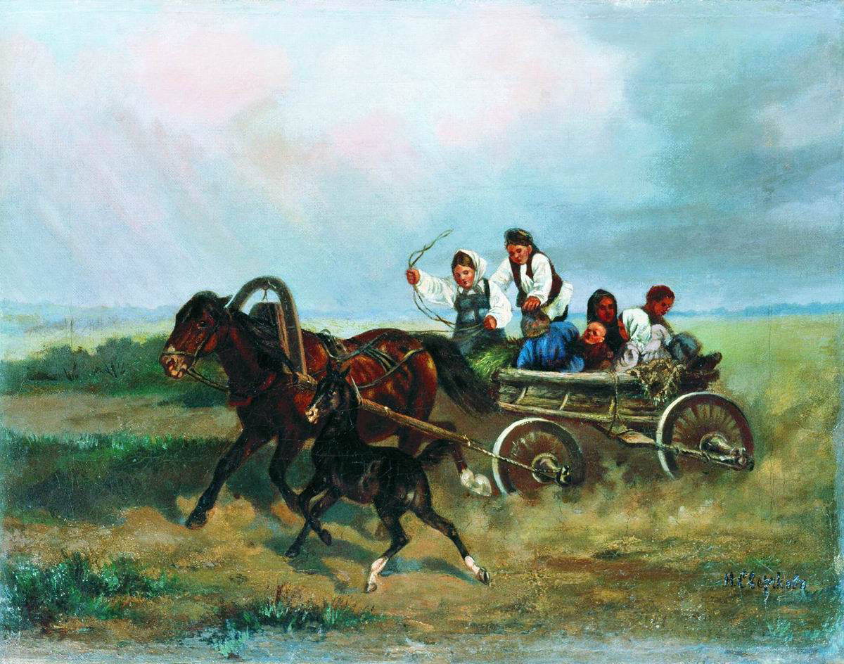 Painting by Nikolai Sverchkov